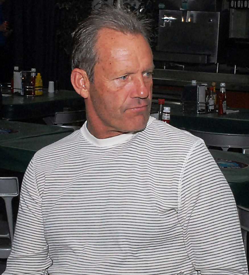 PACIFIC OCEAN (Feb. 20, 2009) Major League Baseball Hall of Famer George Brett speaks with Hull Maintenance Technician 3rd Class Jess Thornsen, left, and Hull Maintenance Technician 3rd Class Vladimir Manasweitsch about life as a Sailor aboard Nimitz-class aircraft carrier USS Ronald Reagan. Ronald Reagan is conducting fleet replacement squadron carrier qualifications.